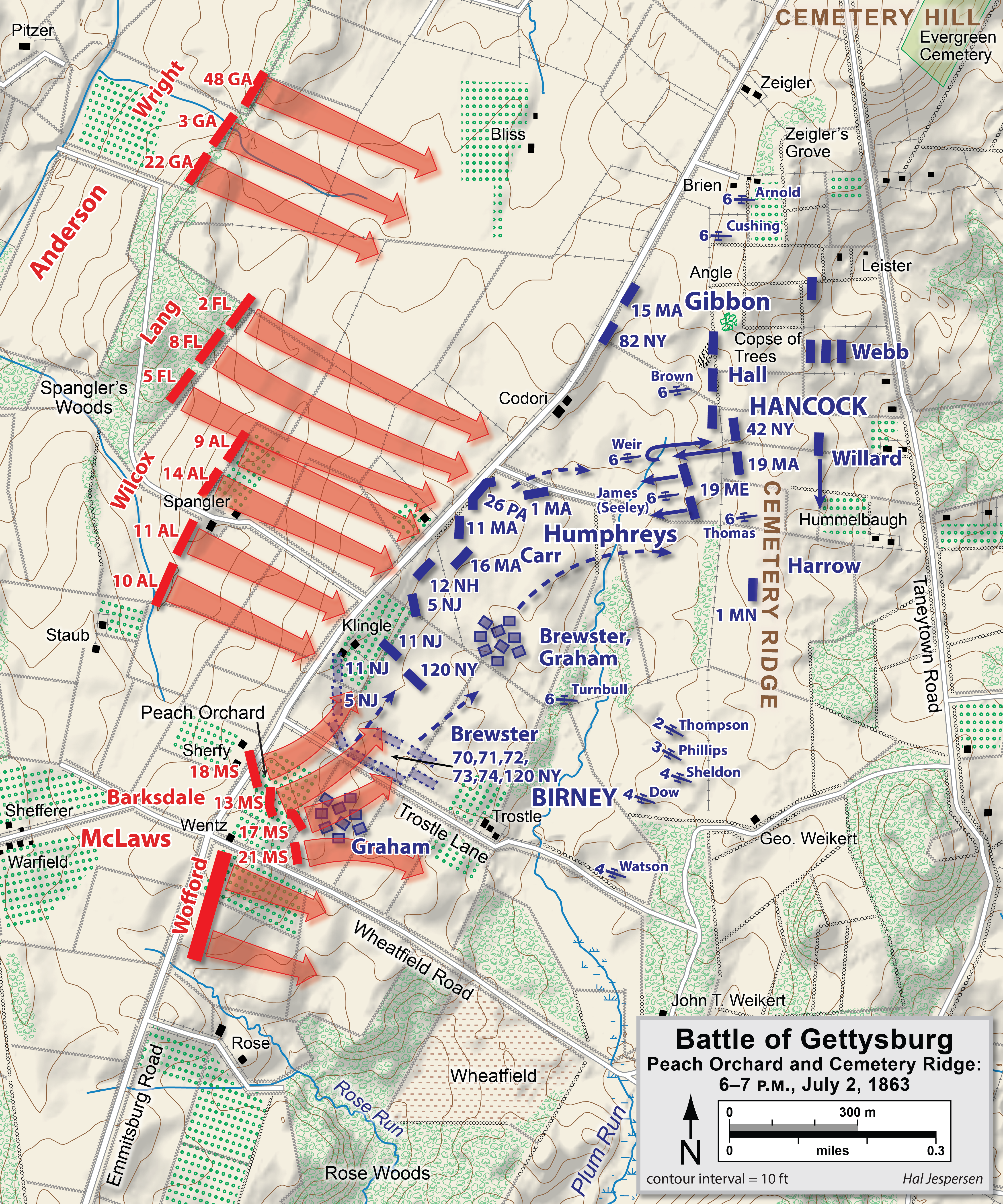 Map of Peach Orchard actions in the Battle of Gettysburg, Second Day, of the American Civil War. Drawn in Adobe Illustrator CS5 by Hal Jespersen. Graphic source file is available at Attribution: Map by Hal Jespersen